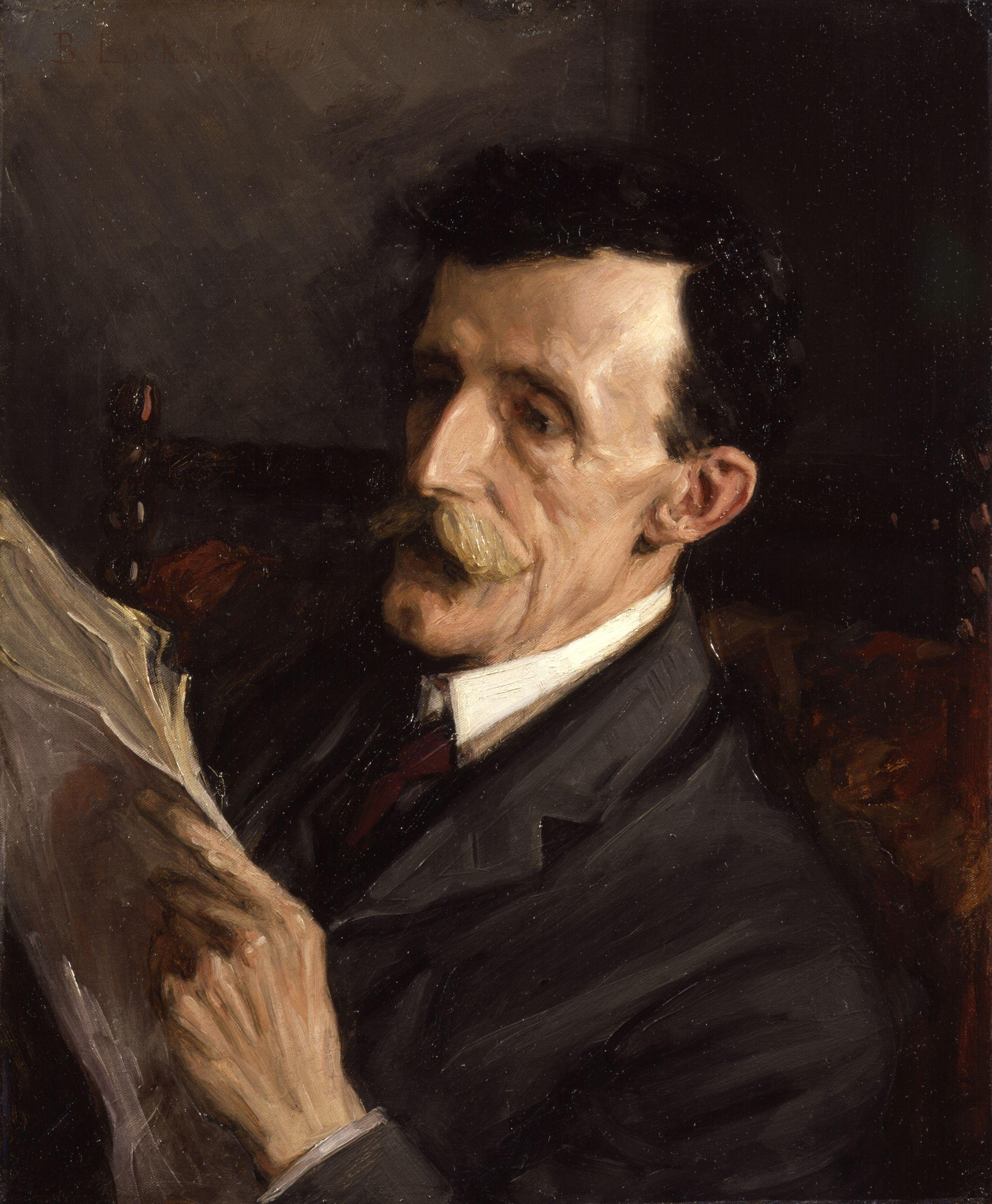 Frederic William Maitland, by Beatrice Lock (Mrs Fripp) (died 1913). All images in this batch have been confirmed as author died before 1939 according to the official death date listed by the NPG.